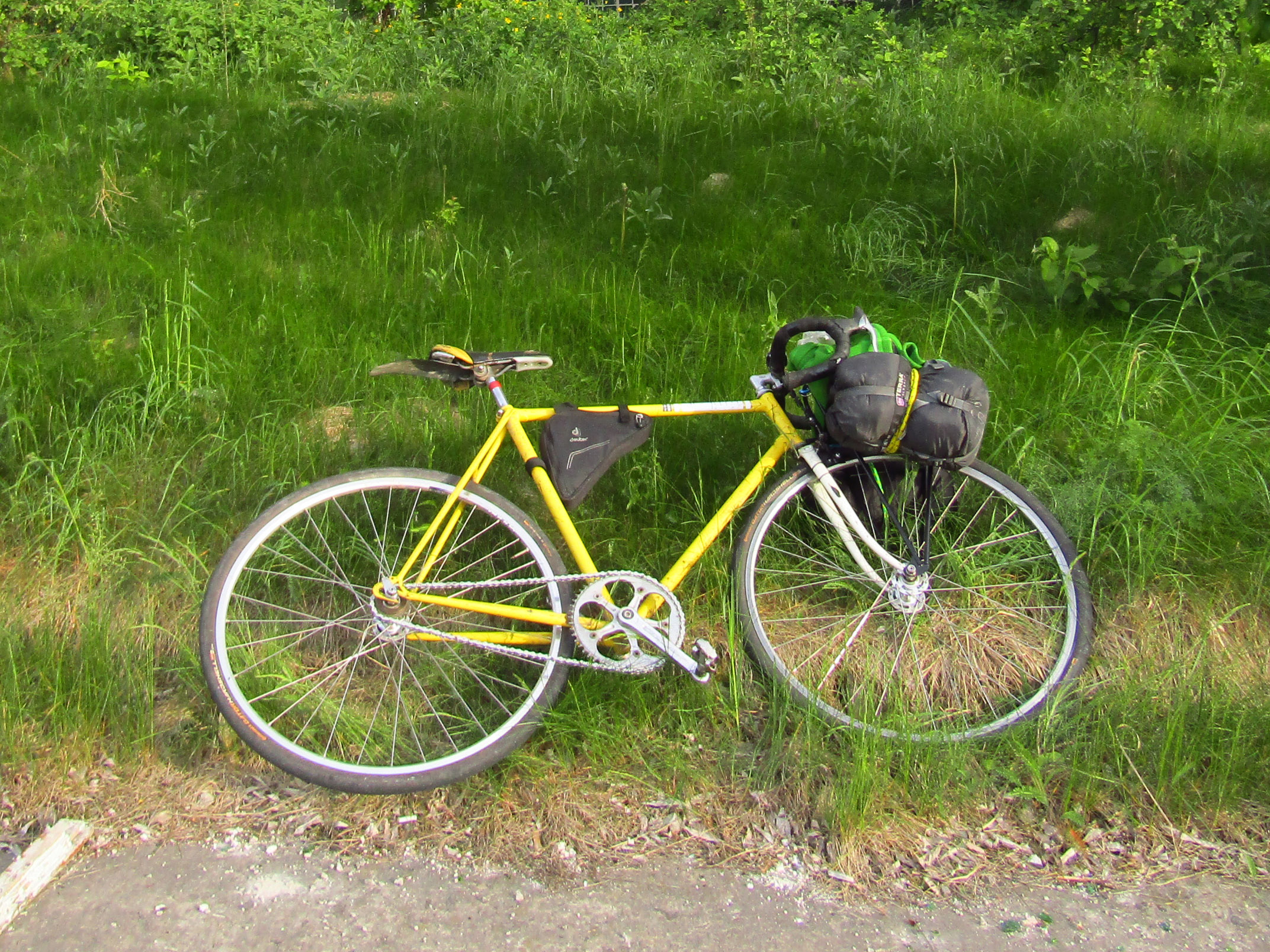 Singlespeed bicycle in abandoned city of Orbita, Ukraine.